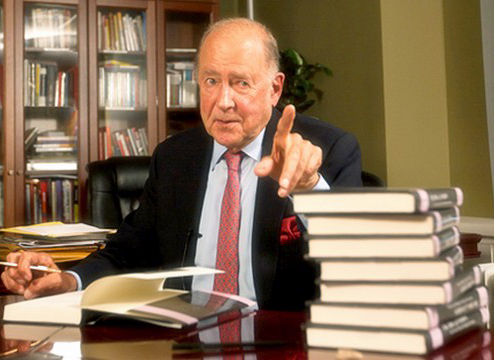 Ira Neimark signing copies of The Rise of Fashion in 2011